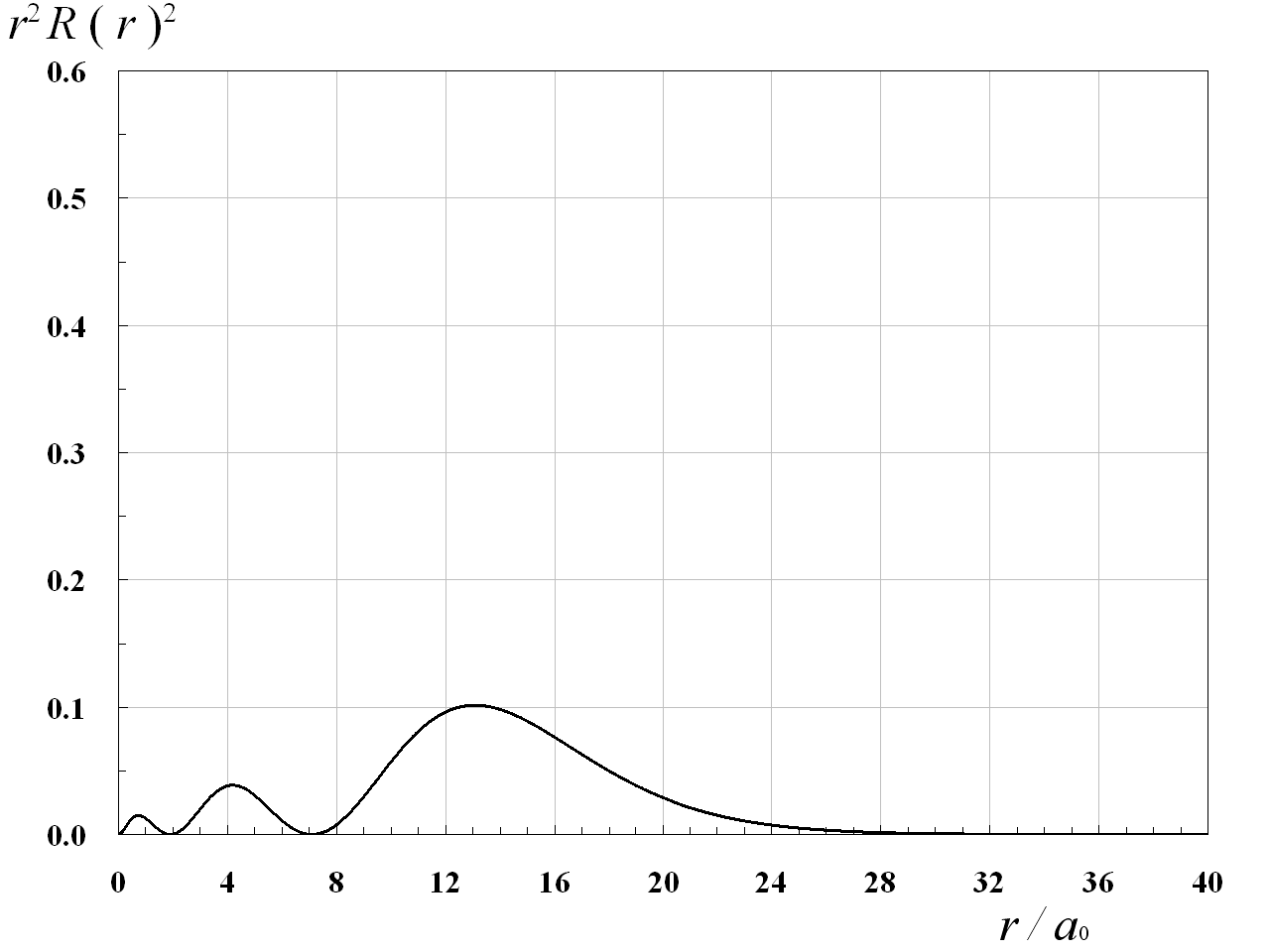 Radial distribution in 3s orbital